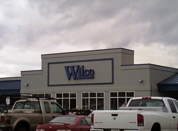 Front of the Wilco farm store in McMinnville, Oregon.